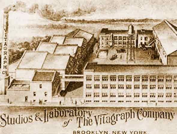 Vitagraph Studios, Brooklyn New York - Silent Film Company circa 1915